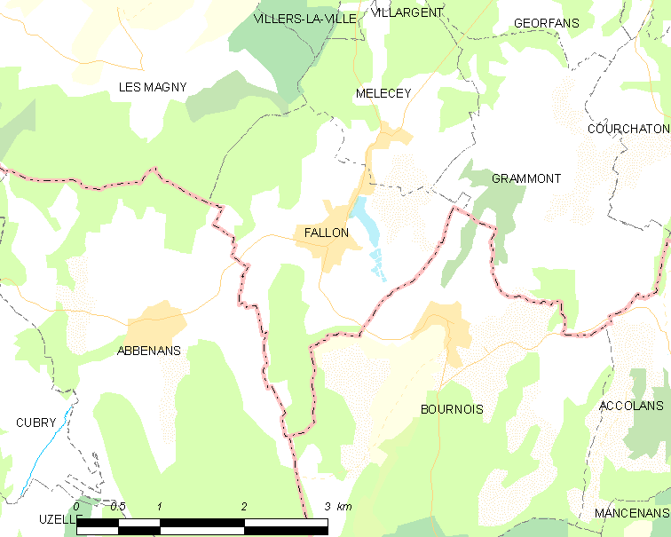 Map of French municipality